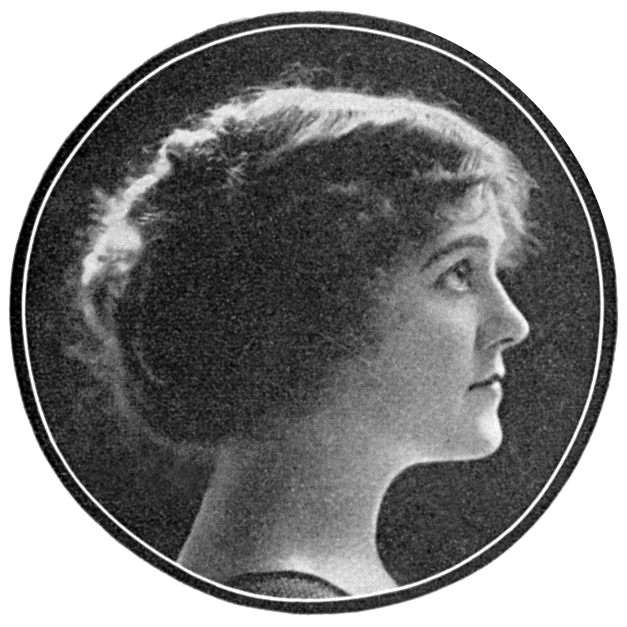 Portrait of actress Phyllis Gordon.